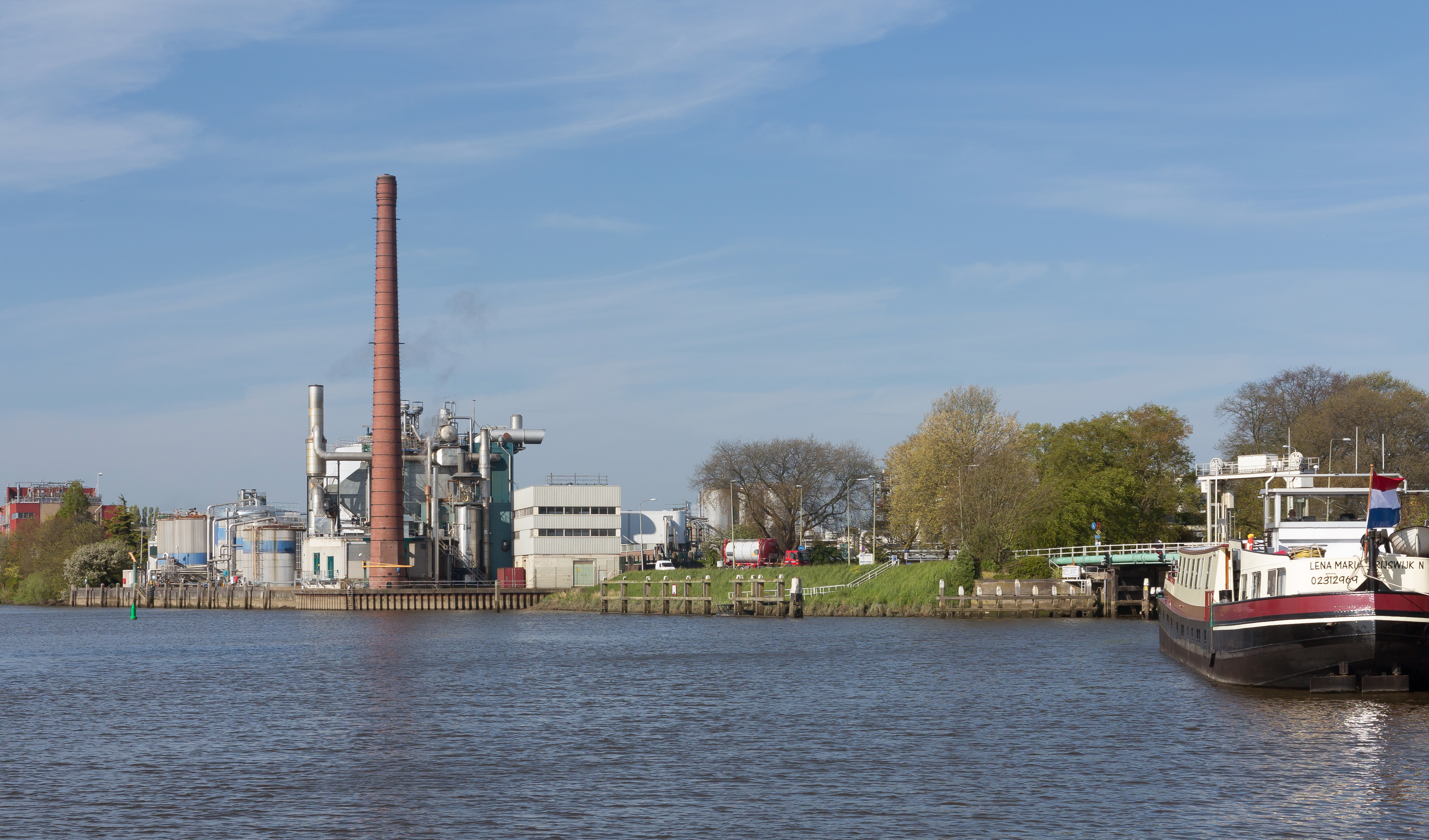 Gouda, industrial company at the Schielands Hoge Zeedijk